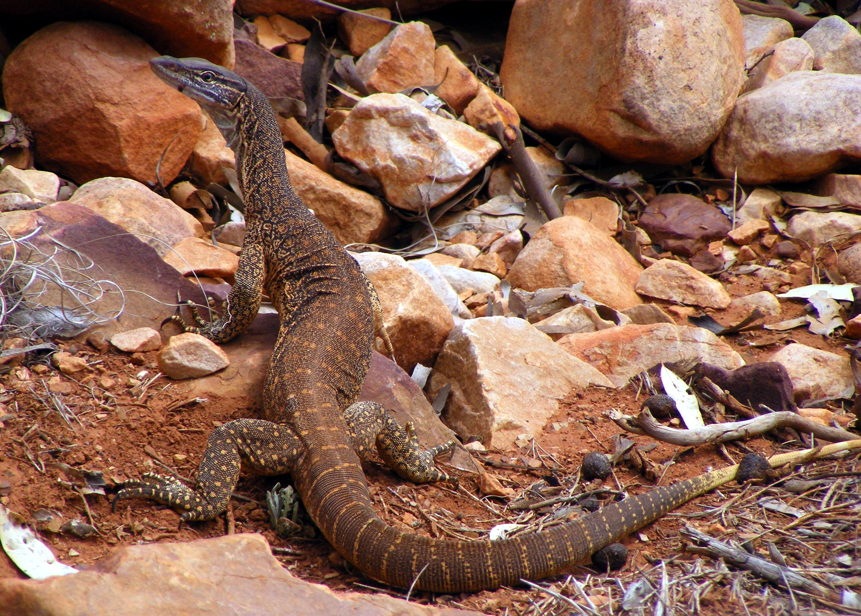 Sand goanna or Gould's monitor - in a dry creekbed, Chace ranges, South Australia